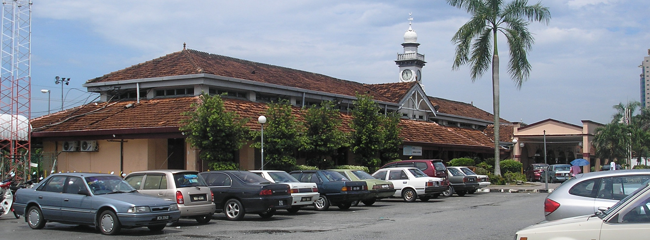 The Seremban railway station (Rawang-Seremban) (frontal view) Seremban, Negeri Sembilan, Malaysia.